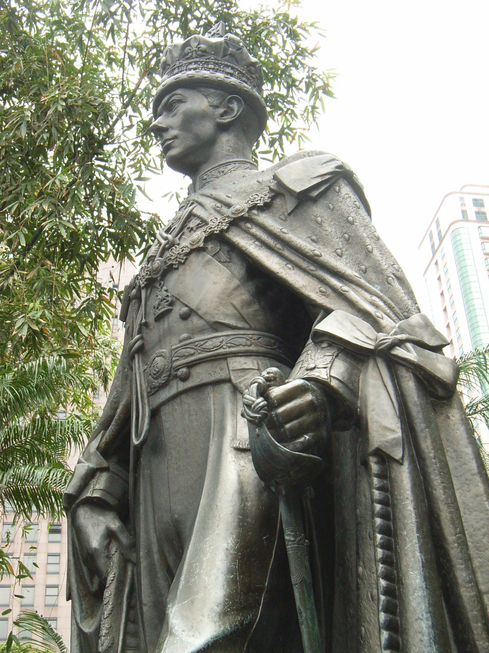 香港動植物公園 Hong Kong Zoological and Botanical Gardens NBG626 Statue of Emperor George VI